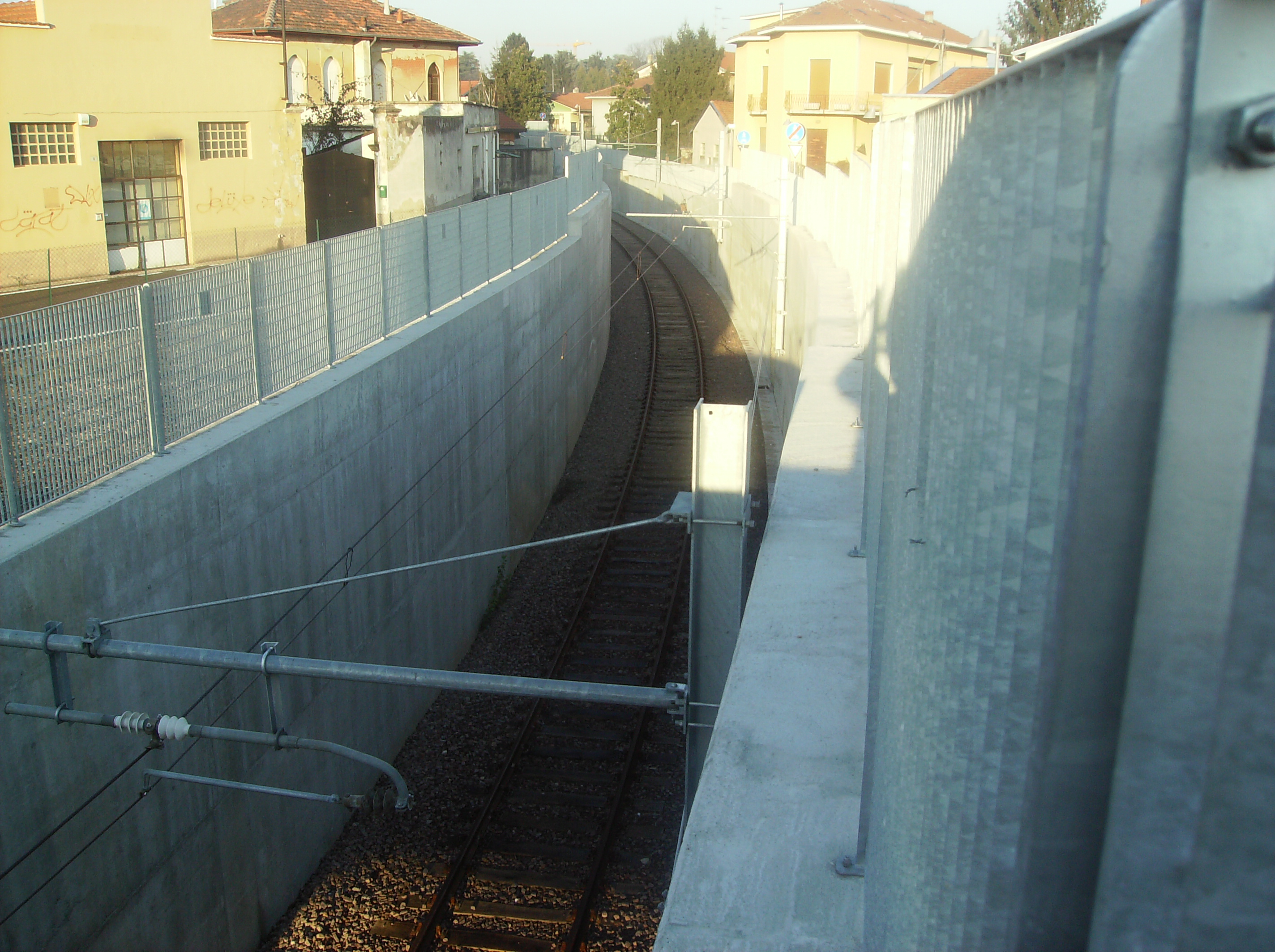 Raccordo X - Busto Arsizio